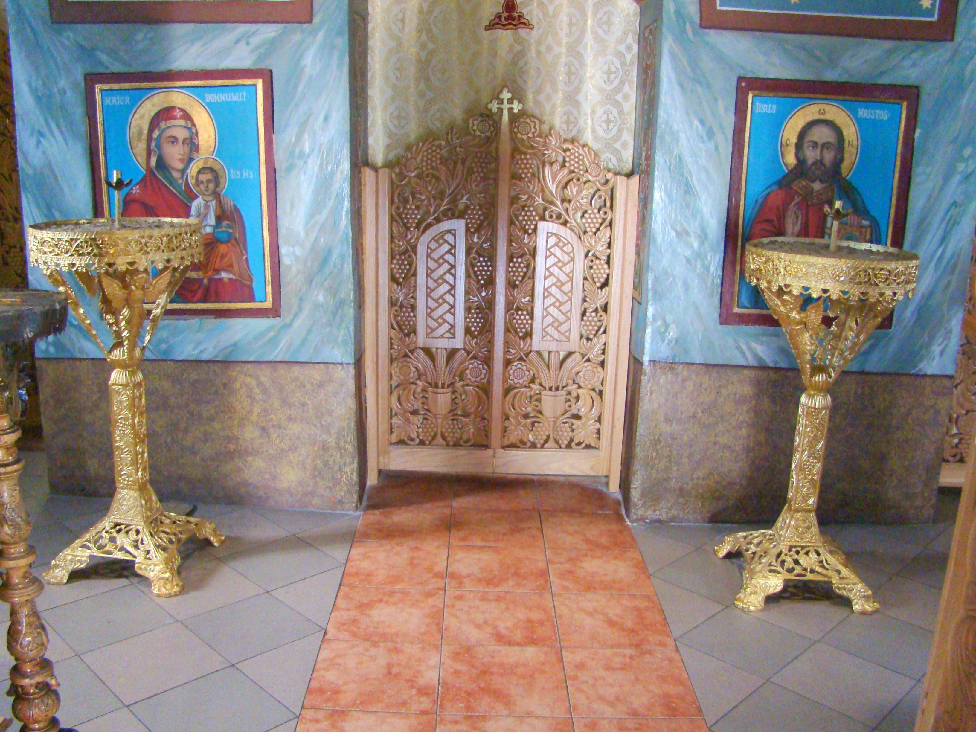 Wooden church in Milostea, Vâlcea county, Romania